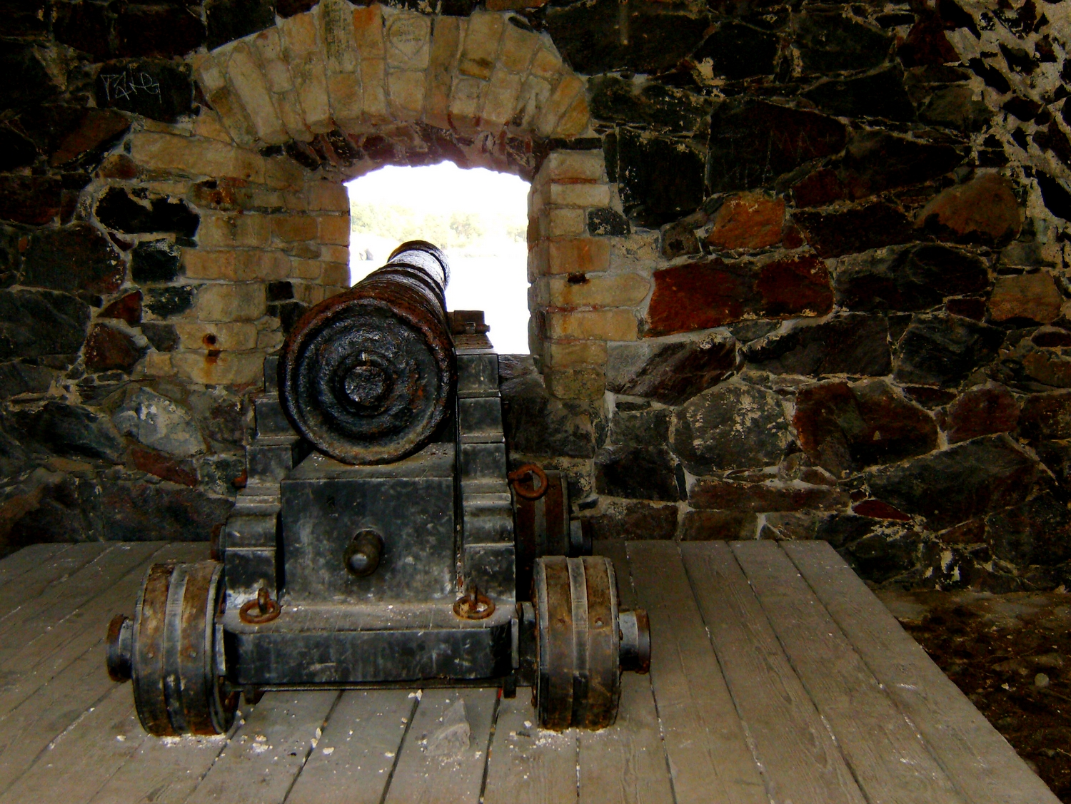 A ancient cannon inside the wall of Kustaanmiekka, Suomenlinna, Helsinki